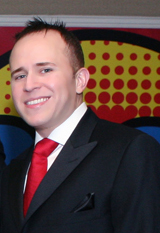 Samuel Beniquez, CEO at AVFA